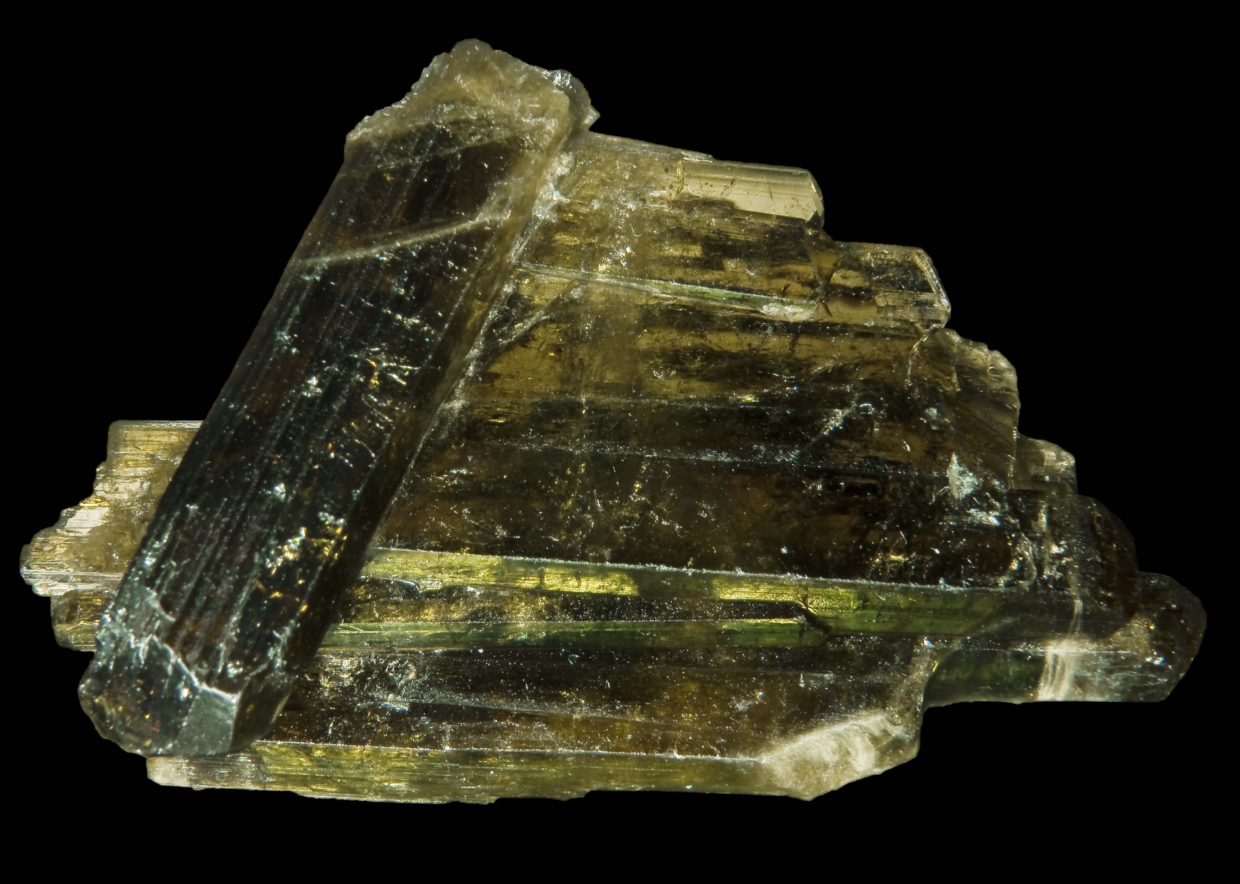 Epidote locality : Green Monster Mountain, Prince of Wales Island, Prince of Wales-Outer Ketchikan Borough, Alaska, USA Size :5.2 x 3.5 cm